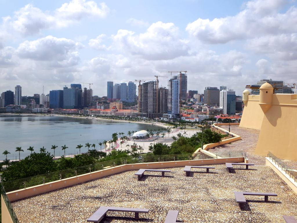 The Fortaleza de Sao Miguel (1576) watches over the south end of the bay at Luanda, Angola.